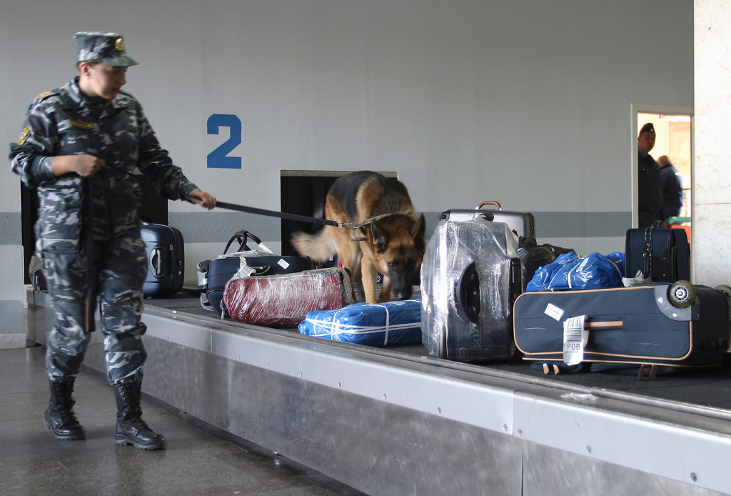 “Baggage check in the airport of Rostov-on-Don”. North Caucasian transport police is building up air, railroad and water route security before elections to the State Duma and local legislatures, due in December 2007. Baggage check in the airport of Rostov-on-Don